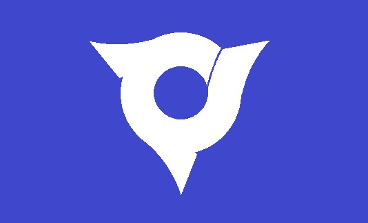 Flag of Hidaka, Saitama